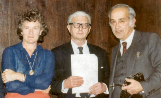 Drs Ruth Bishop, Thomas Flewett and Albert Kapikian, virologists